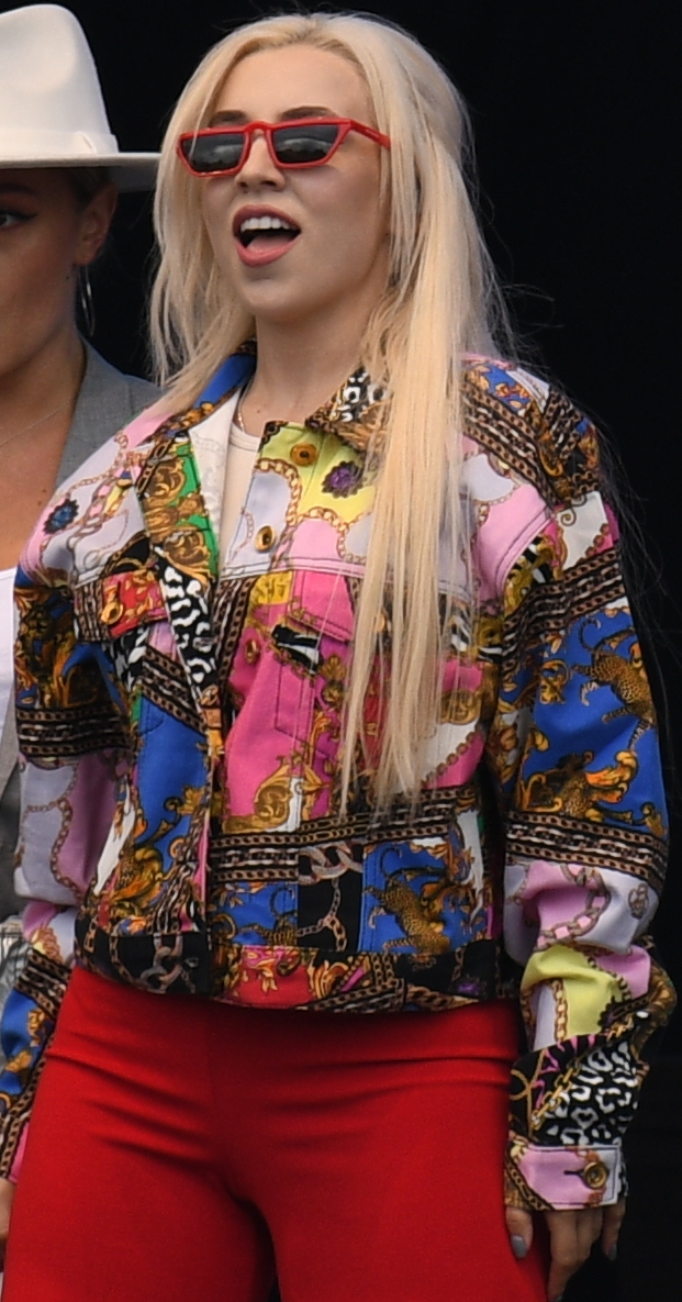 Ava Max at the Rix FM Festival in Gothenburg